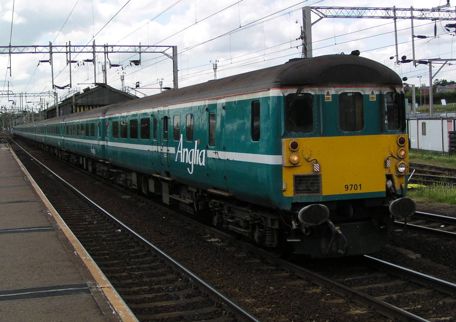 BR Mk. 2F DBSO no. 9701 arriving at Colchester station on 12th June 2003. This vehicles is painted in Anglia Railways turquoise livery. Image by Phil Scott (Our Phellap)